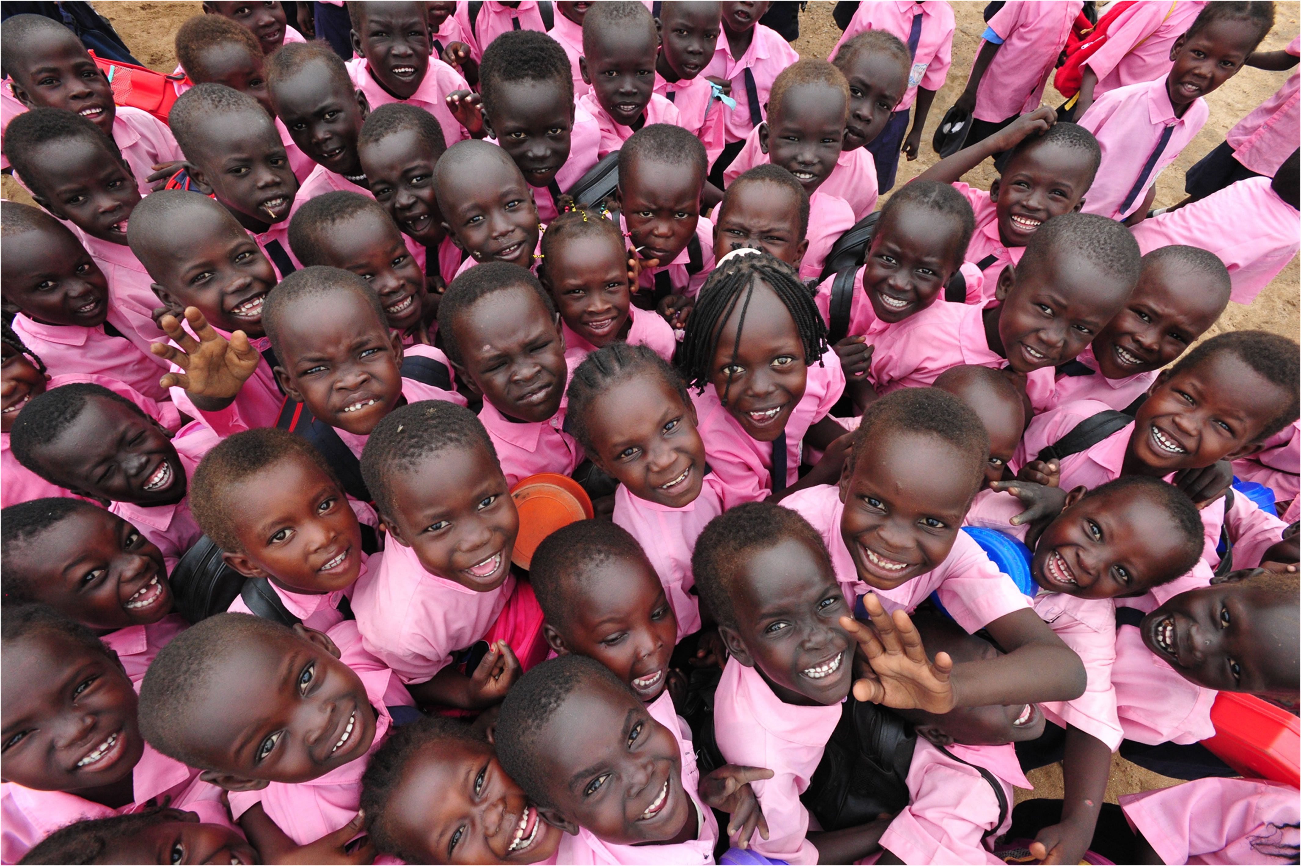 From USAID site "Sudan: Using Radio to Broadcast Interactive Student Lessons. These rural schoolchildren participate in the USAID-funded Southern Sudan Interactive Radio Instruction project, which uses radio to broadcast interactive student lessons. The lessons, based on Southern Sudan's primary school syllabus, complement classroom instruction in literacy, English, mathematics, and life skills for grades one through four. July 2010."